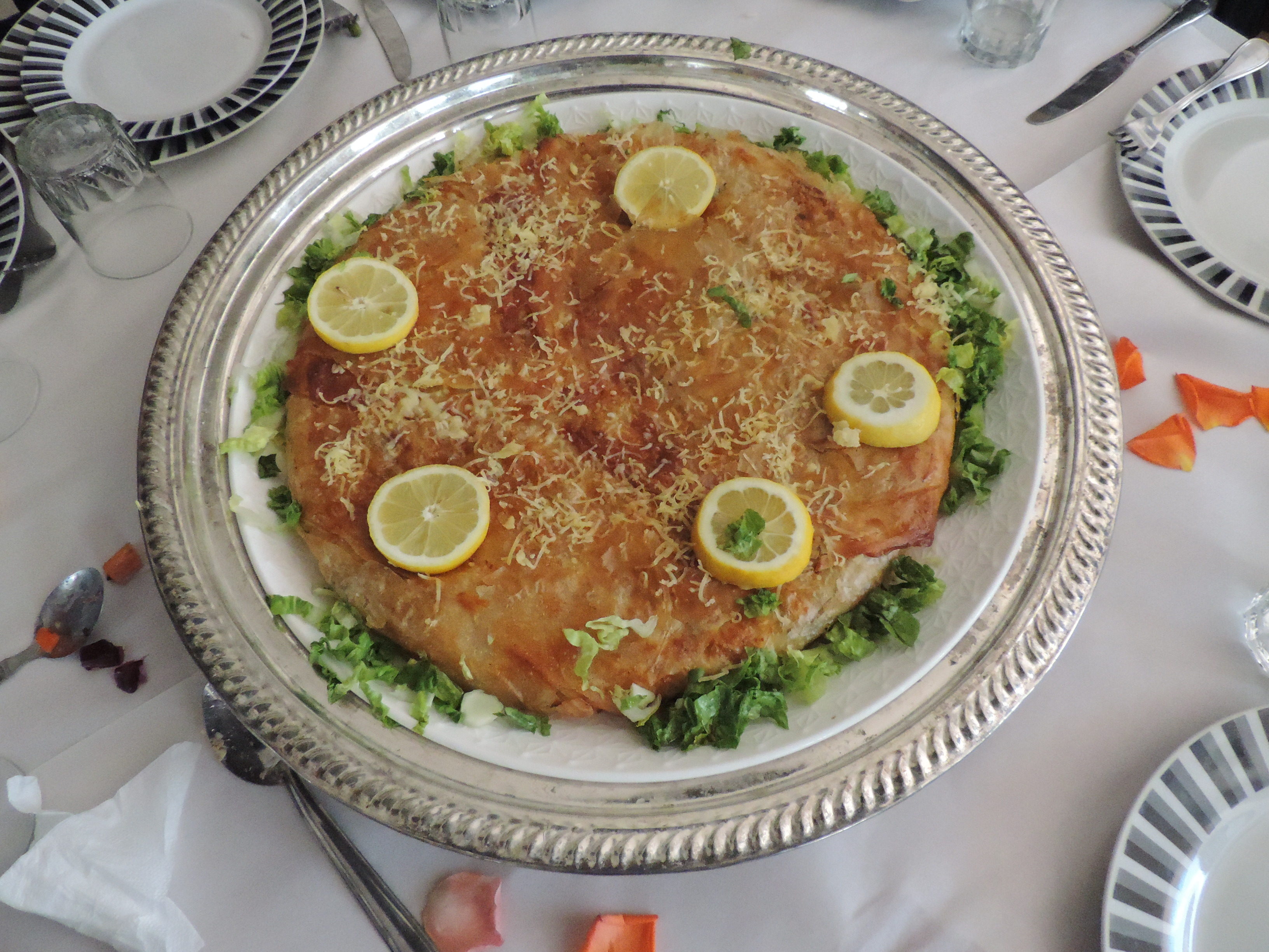 Fish dish in Beni Mellal, Morocco